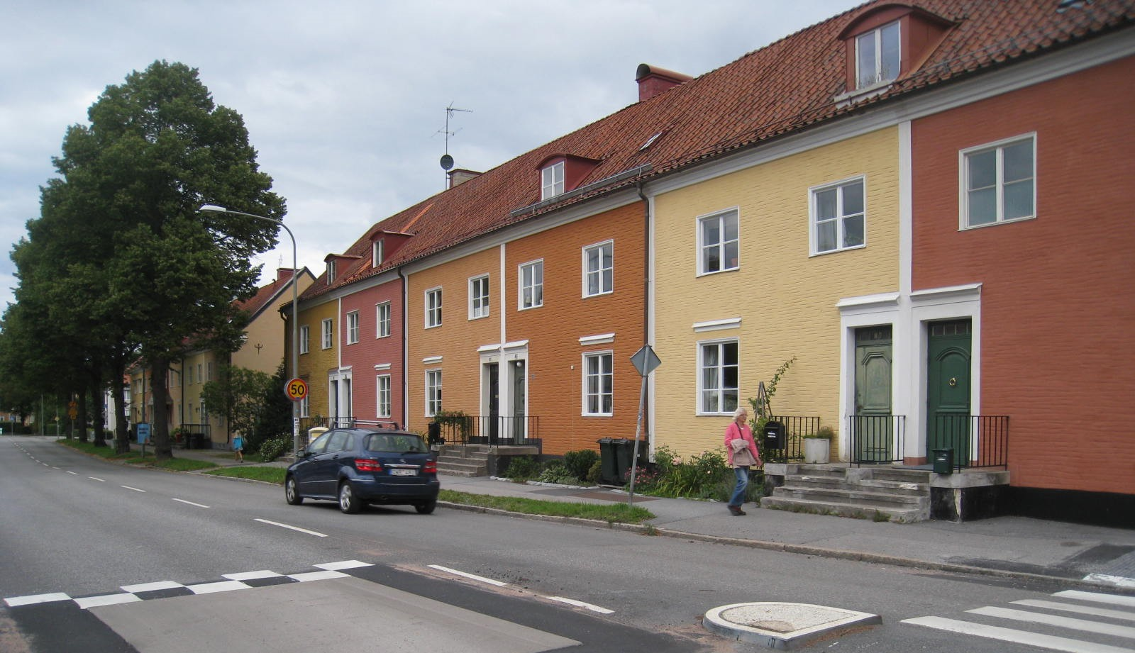 Kvarteret Tallarna, Äppelviken, Alviksvägen 79-89, Bromma, Stockholm.